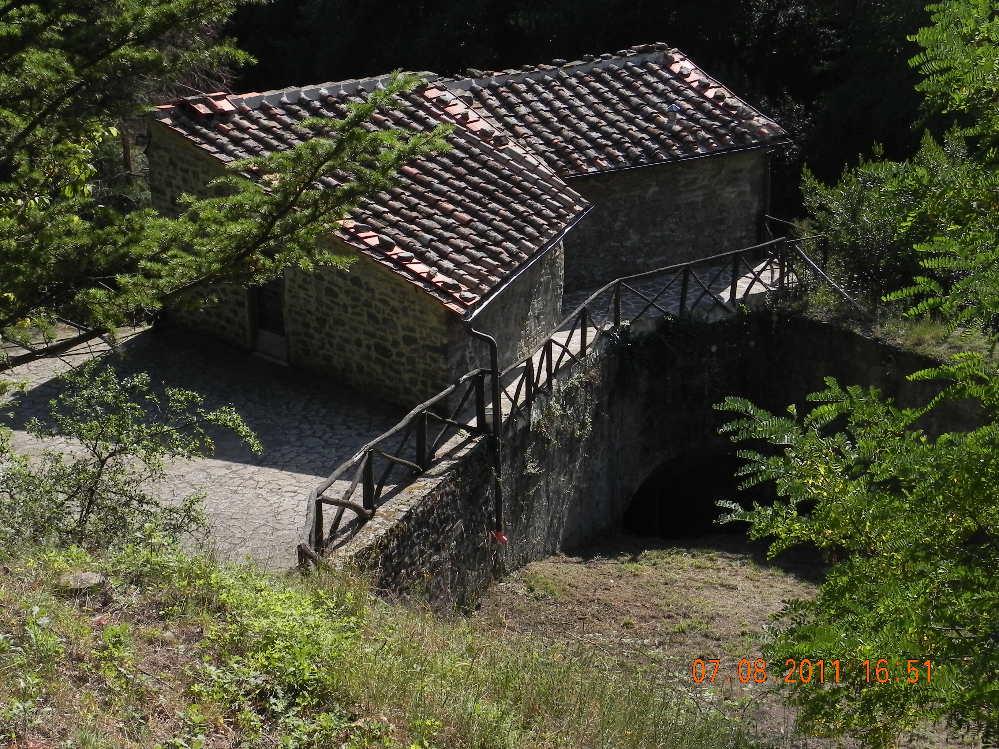 mulino pratovalle